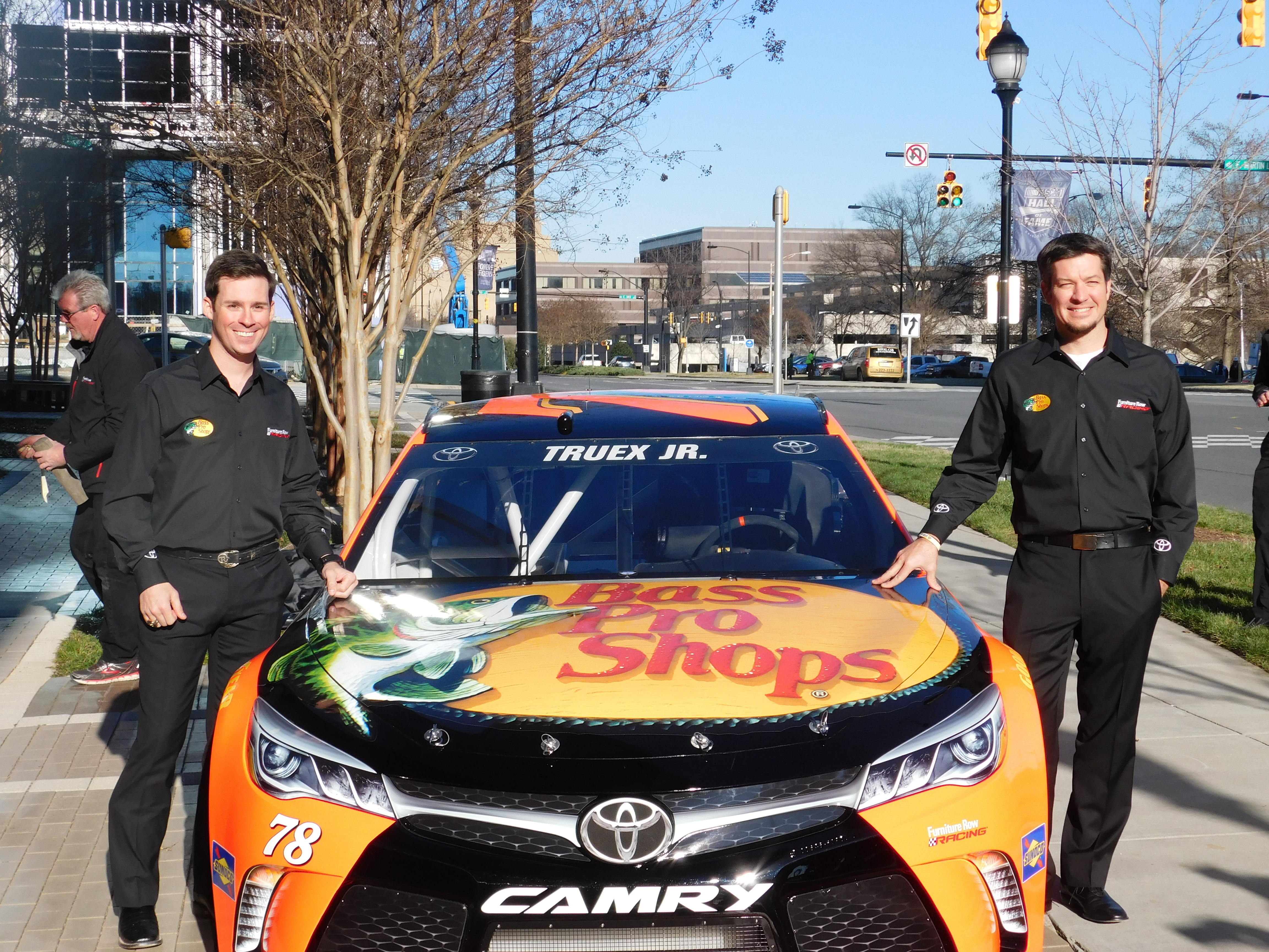 Martin Truex Jr. and Cole Pearn next to their new 2016 Bass Pro Shops Toyota for Furniture Row Racing